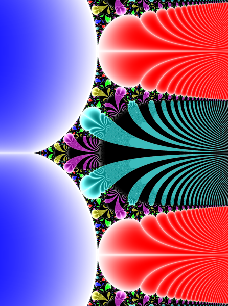 This is a plot of parameter space for the complex exponential family, f(z)=exp(z)+c. Hyperbolic components (consisting of parameters for which there is an attracting periodic orbit) are drawn as colored regions. The bifurcation locus (the region where the dynamics is unstable under a small perturbation of c) is shown in black. This file (in the resolution provided) is licensed under the creative commons attribution license - that is, you may use it as you like, as long as you acknowledge me.